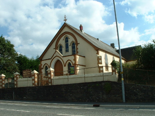 Burraton Methodist Chapel, Burraton, Saltash. Burraton Methodist Chapel, Burraton, Saltash, Cornwall. This is now being demolished and flats being built in its place. A new place of worship is being built to the right of the picture by the developers.